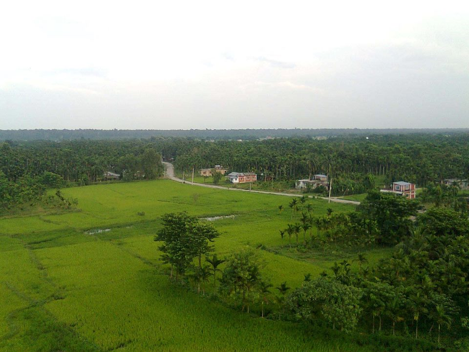 A bird's eye view of a part of Budhabare village in Jhapa district, Nepal.